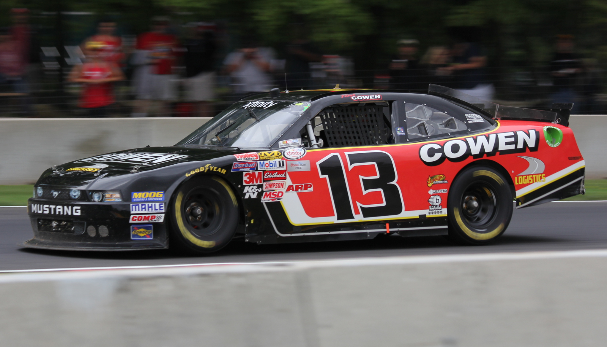 The NASCAR Xfinity Series car of Tim Cowen turning left in Turn 6 at Road America.